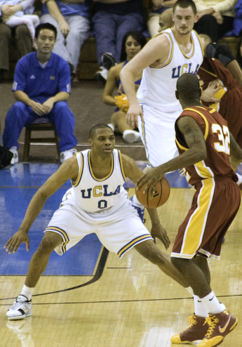 Russell Westbrook of UCLA Bruins guards O.J. Mayo of Southern California Trojans. Kevin Love (behind) also a former teammate.